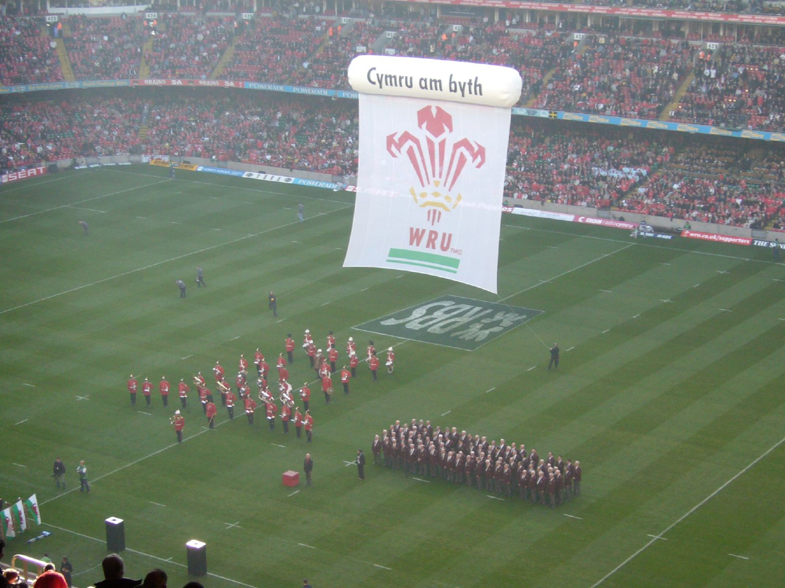 Millennium Stadium (Wales Vs Scotland) 9 February 2008, Cardiff, Wales